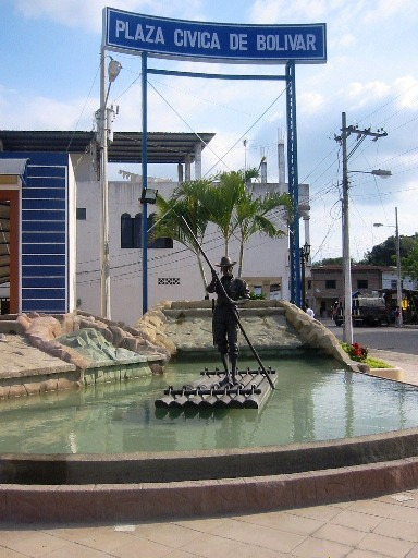 Monument to the "Balsero del Carrizal", Civic Place of Bolivar